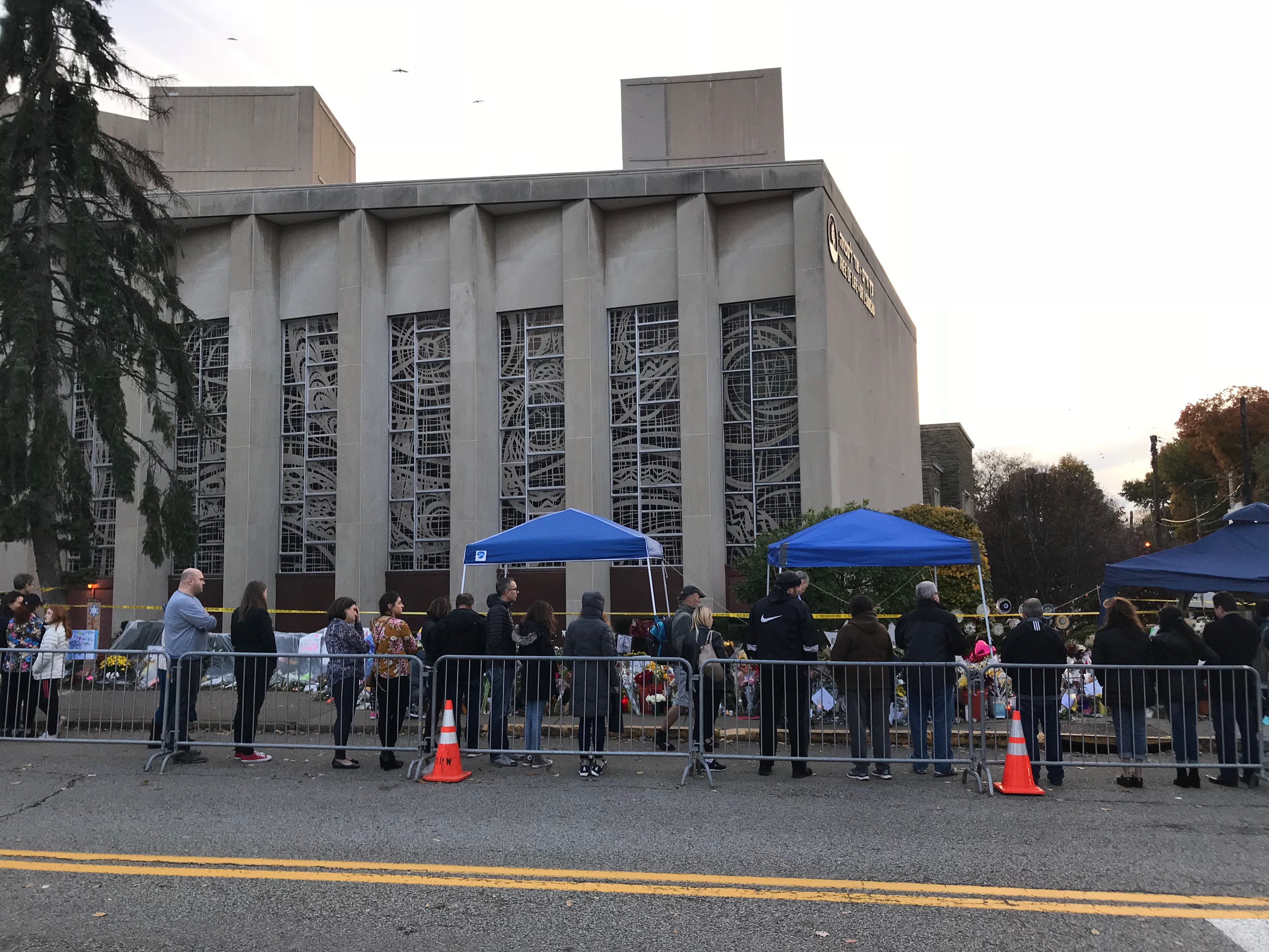 People pay their respects at a memorial to the victims of a mass shooting in front of the Tree of Life - Or L'Simcha Congregation in Squirrel Hill, Pittsburgh, Pennsylvania, on November 4, 2018.